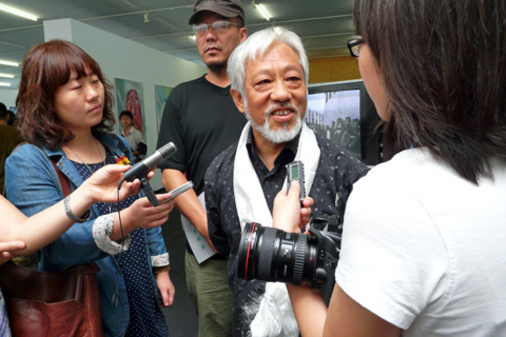 Renowned art critic Li Xianting, director of the Songzhuang Art Museum, takes questions from journalists at the opening of the art exhibition.